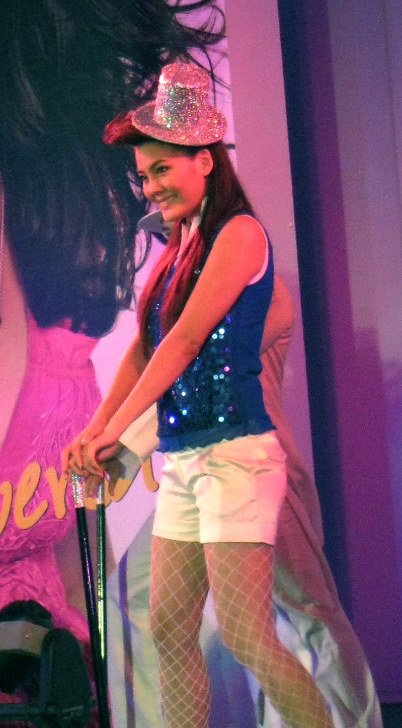 Janie Thienphosuvan at 6th Anniversary of Seventeen Magazine